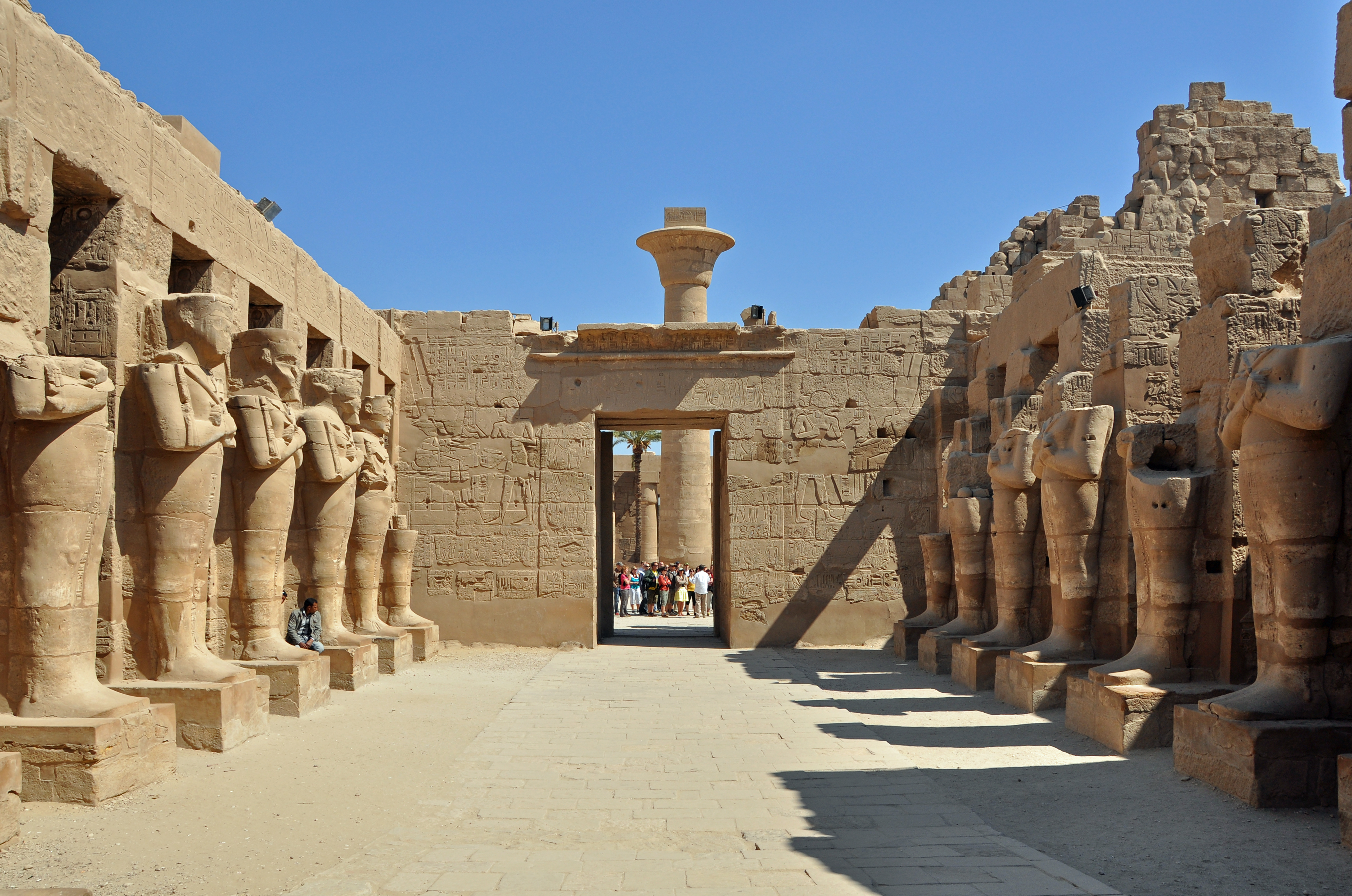 Luxor (Egypt): Karnak - Temple of Ramses III